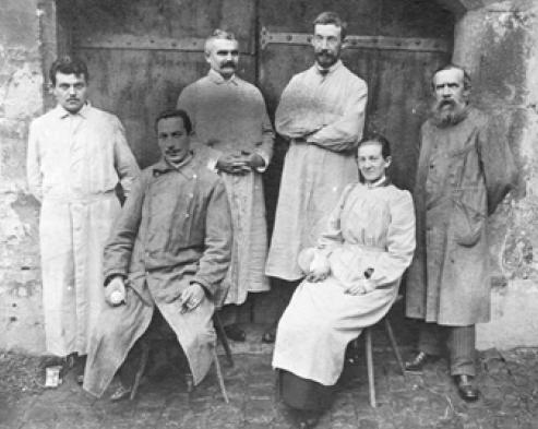 Maria von Linden and colleagues in front of the Zoological Insititute of Tübingen (Germany). She was the first student at the University of Tübingen.